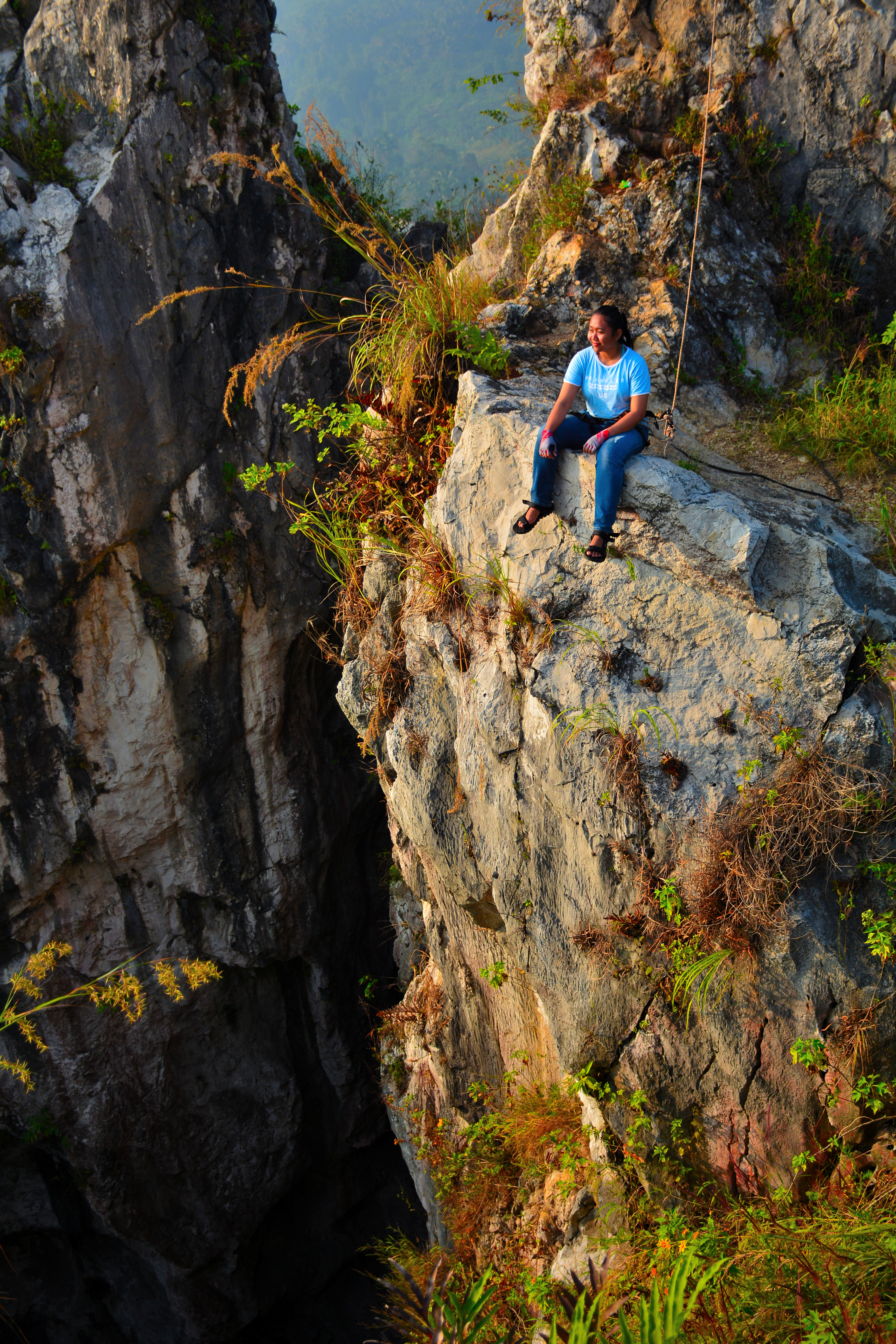 A woman sits on the edge of Citatah 125 cliffs in Padalarang, West Java